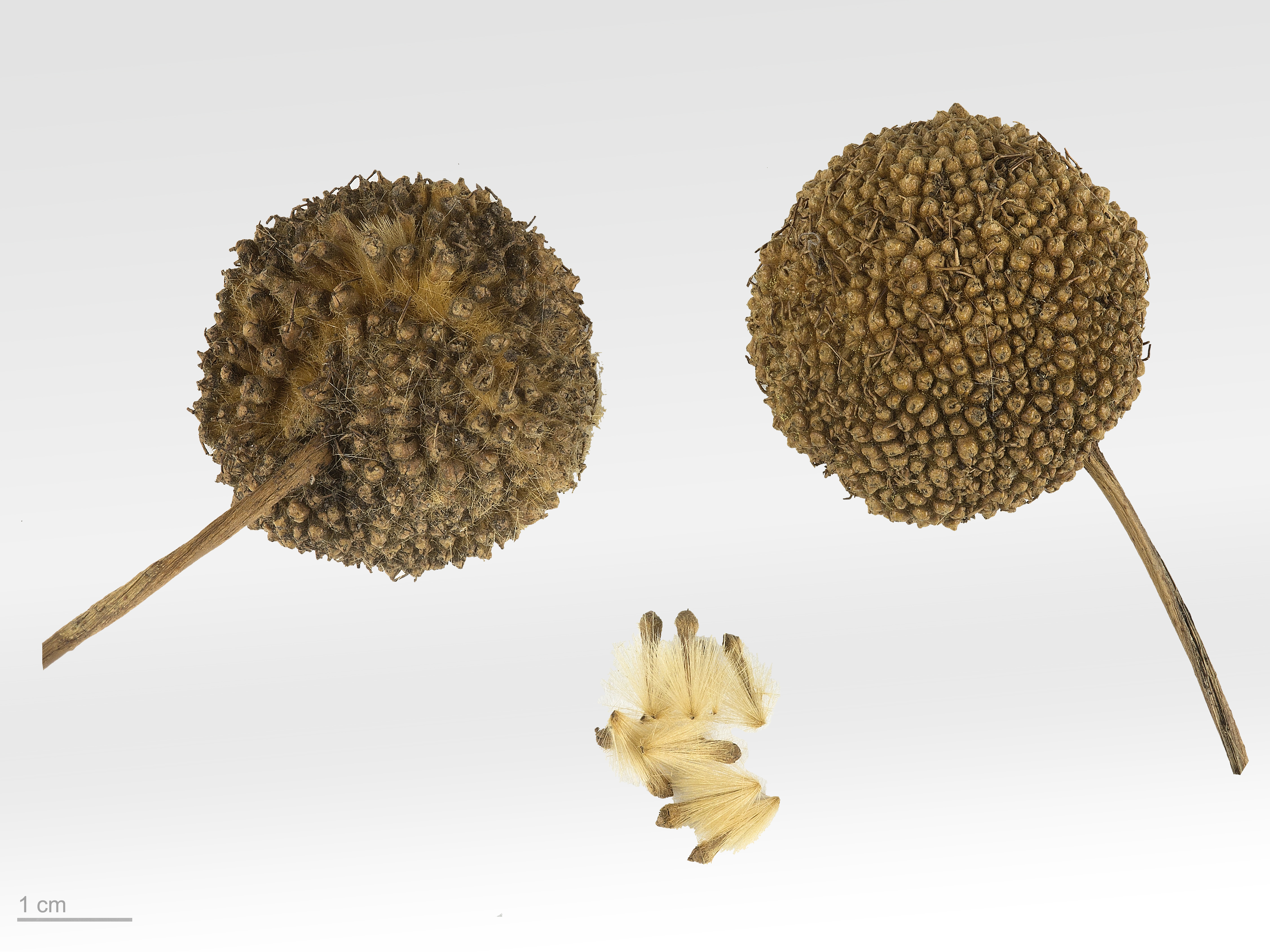 London plane , fruits and seeds